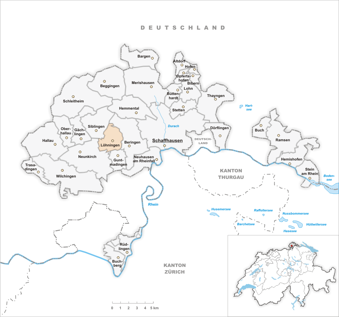 Municipality Löhningen